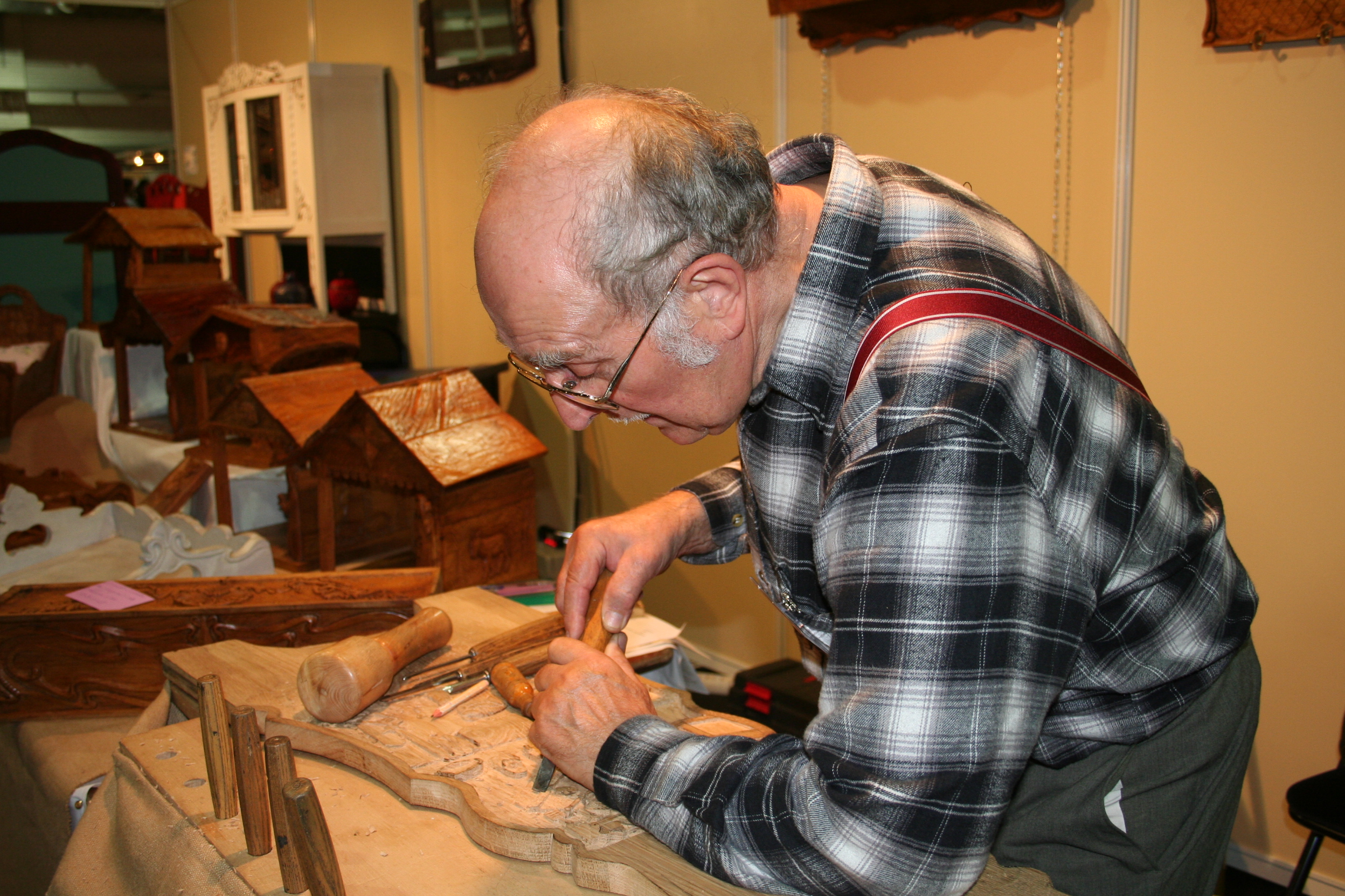 The wood sculptor (Mr Clément D'HONDT). Document published with the photographed person